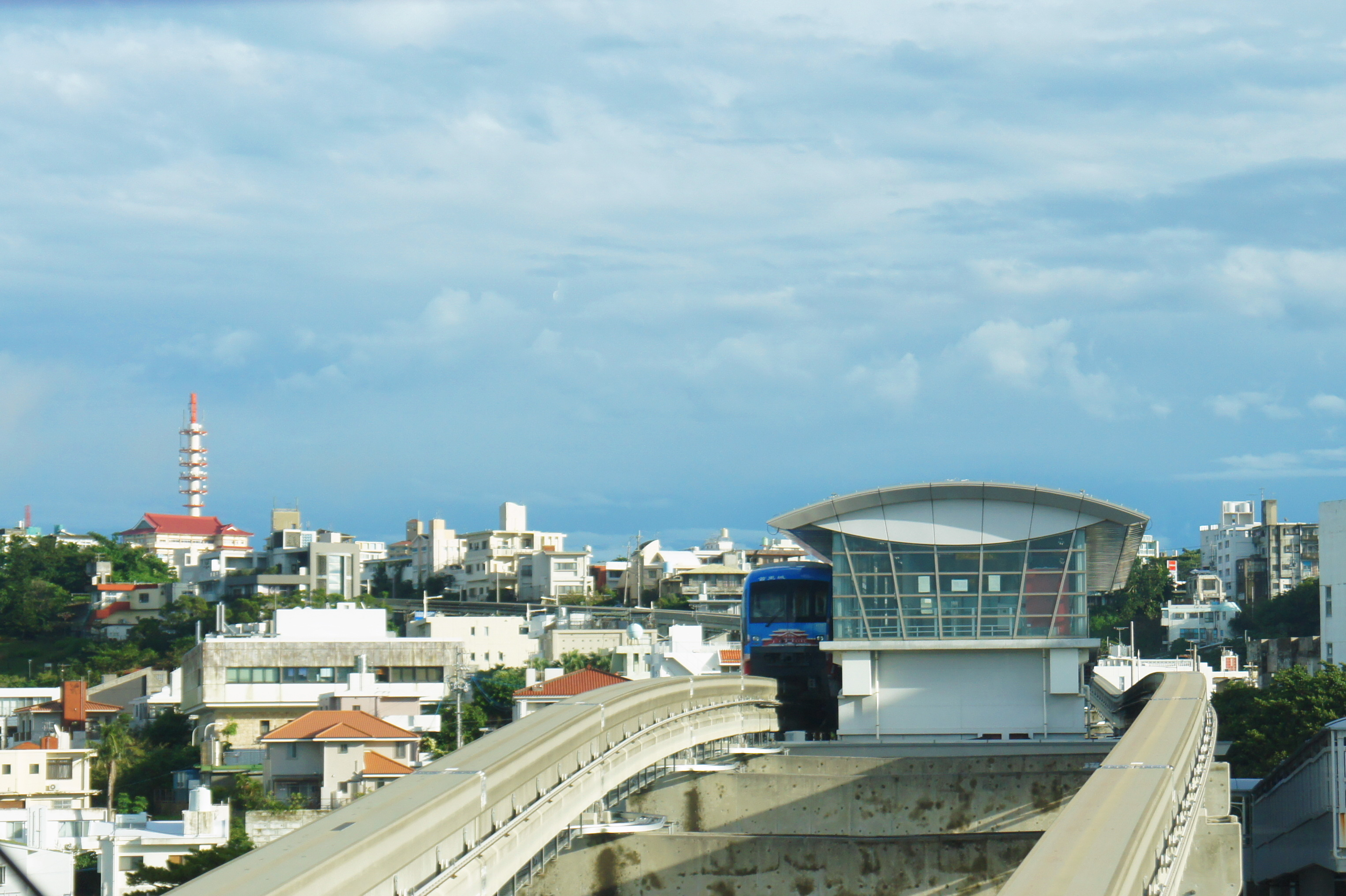 Okinawa City Monorail Line (Yui Rail), Shiritsu-byōin-mae Station (Okinawa)